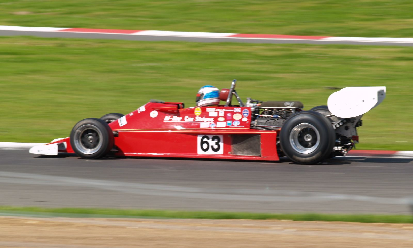 An Ensign N177 Formula One car being driven in competition at the Silverstone Circuit, July 2007.